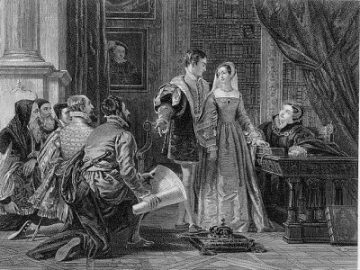 The Crown Offered to Lady Jane Grey. Engraving after Romantic era painter Charles Robert Leslie.